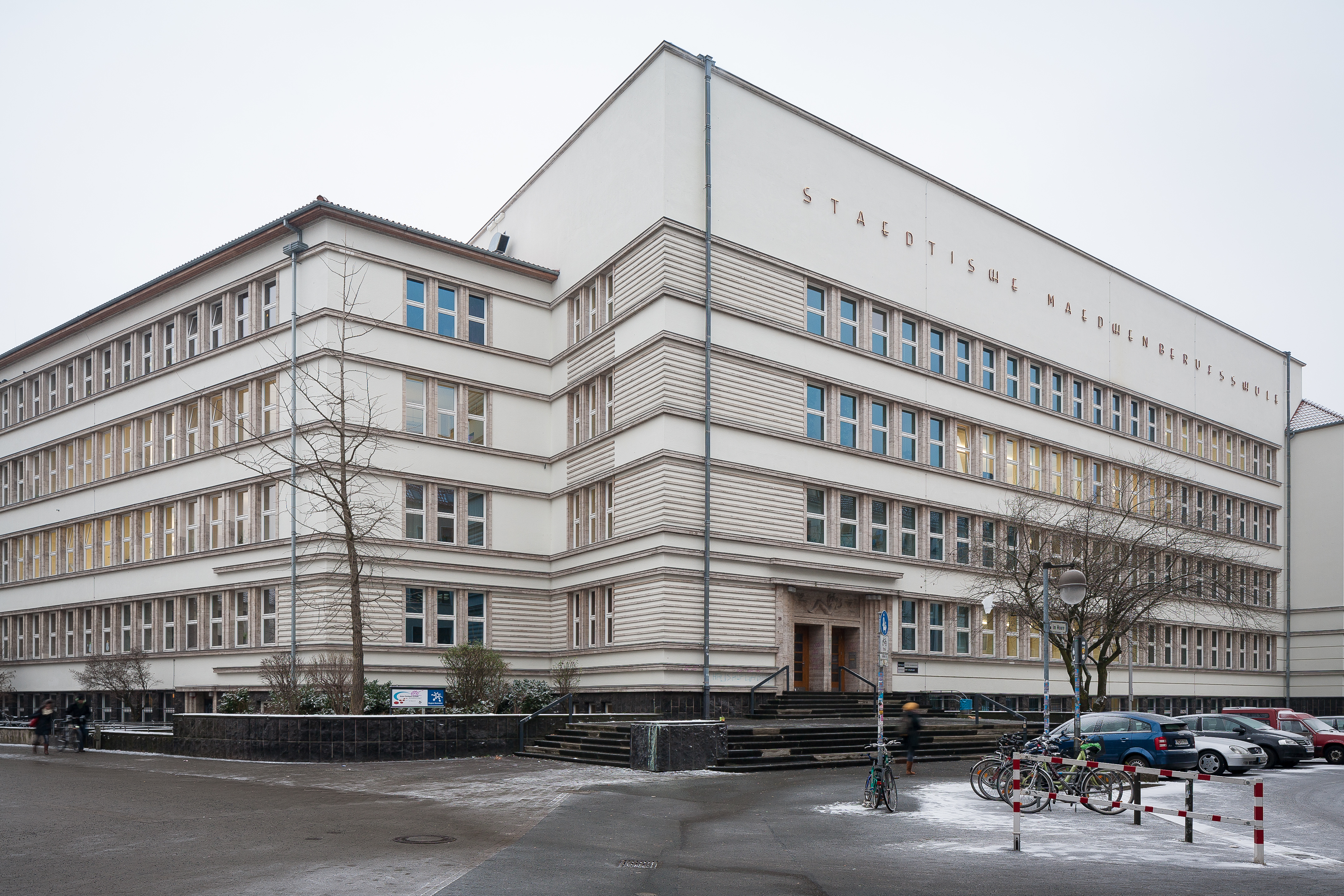 Vocational school located in Nordstadt city district in Hanover, Germany.